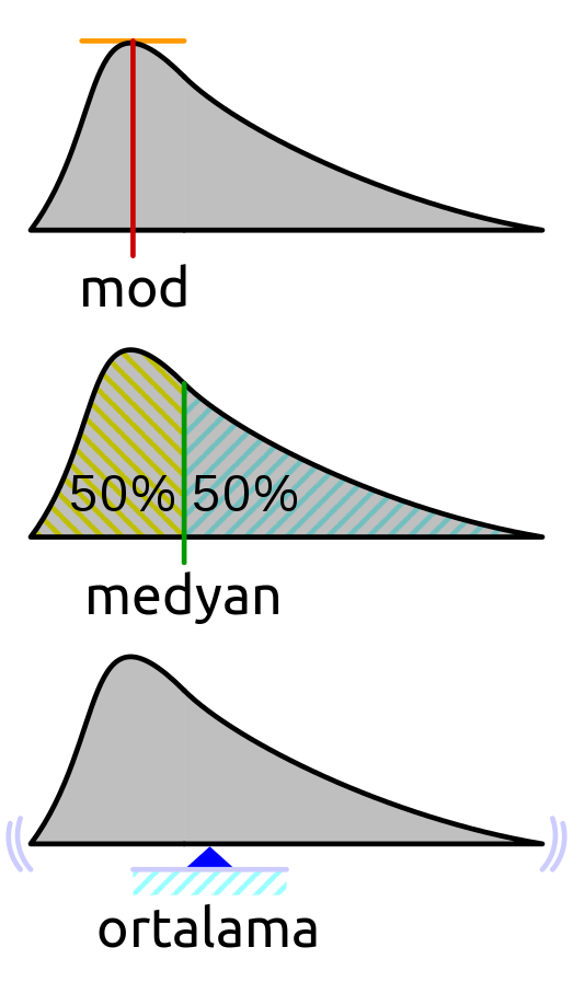 Turkish translation of Visualisation_mode_median_mean.svg file. The original file allows modifications share-alike.